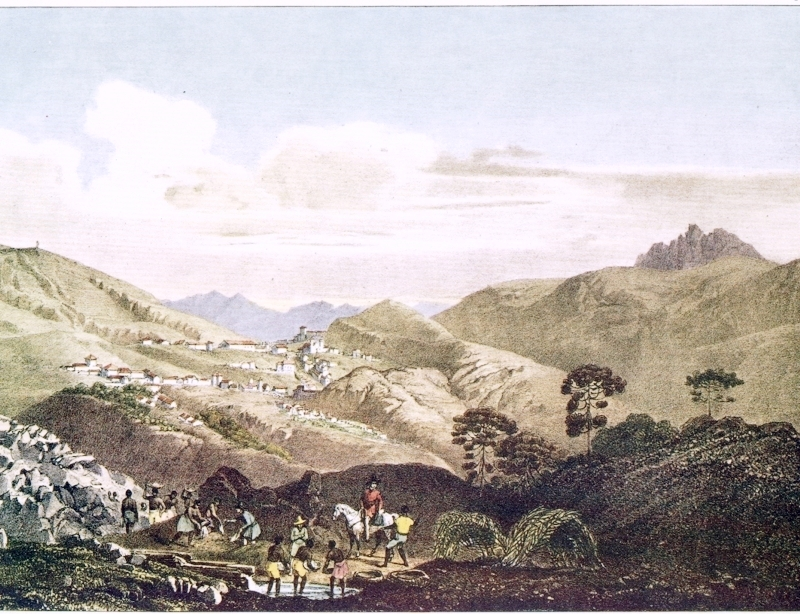 Vila Rica, nowadays Ouro Preto city in Minas Gerais state